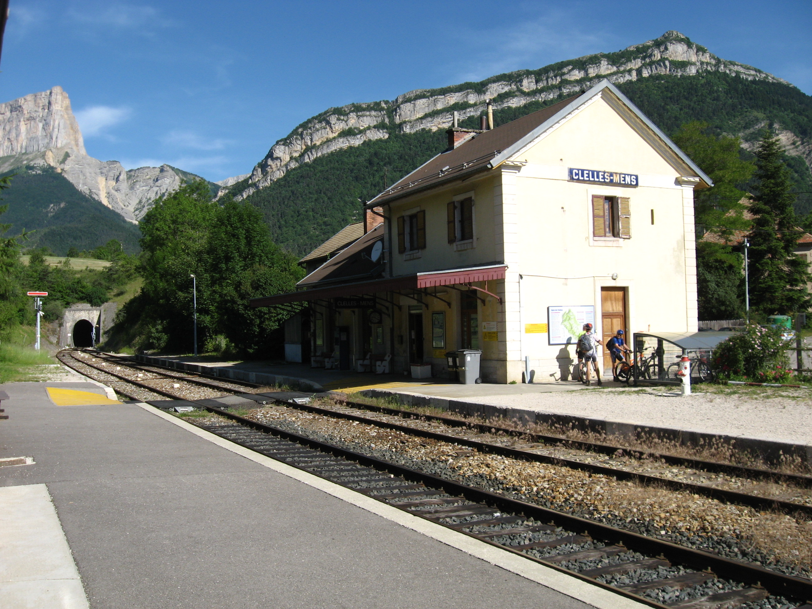 Station building of Clelles-Mens. In the background an old style signal